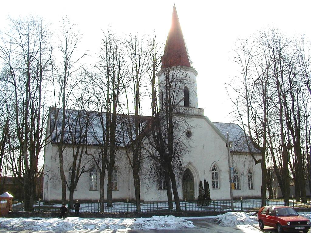 Smiltene Evangelical Lutheran Church